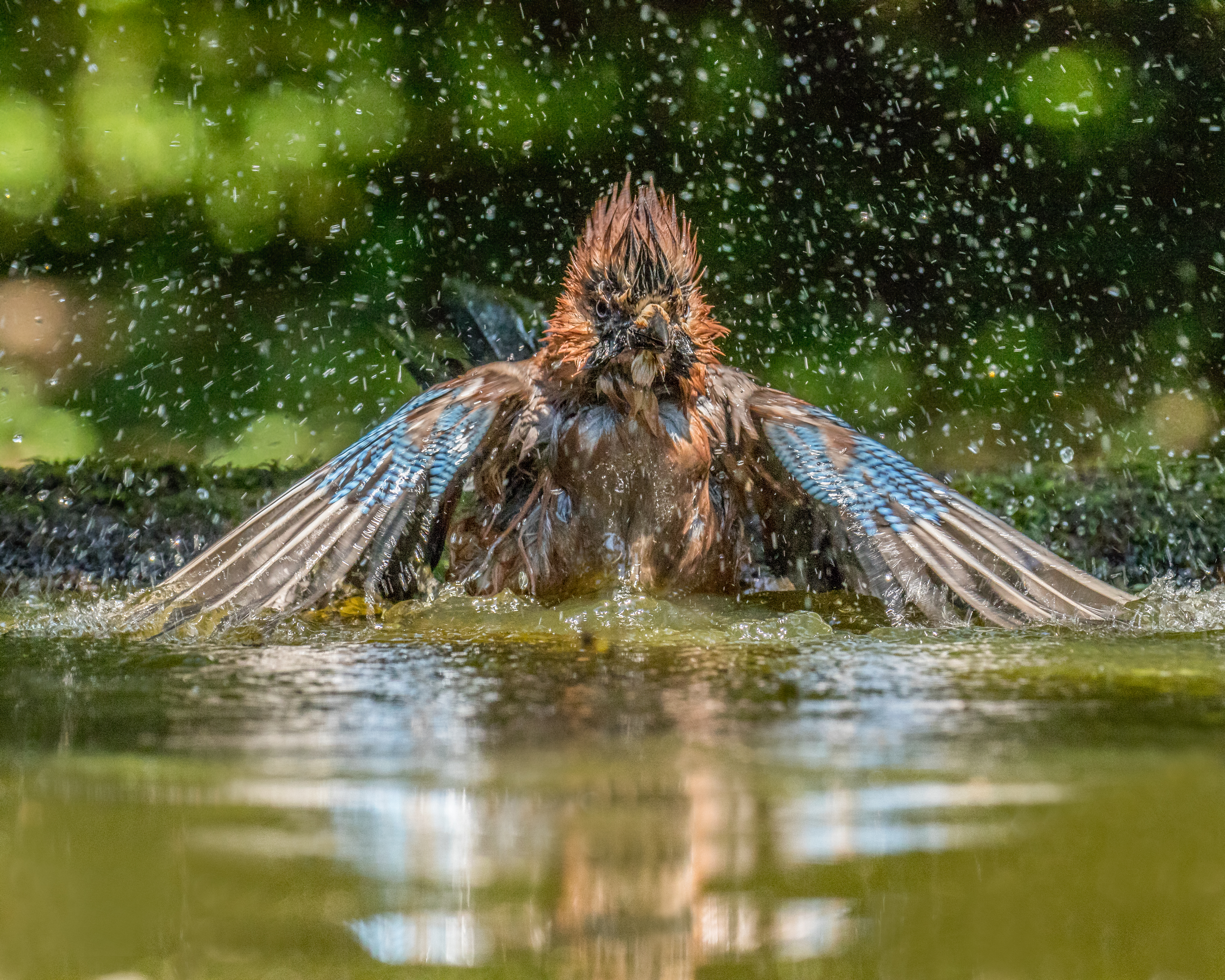 A jay having a bath!